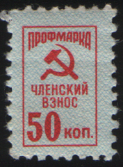 Trade-union stamp of the USSR, 50 kop. 1963